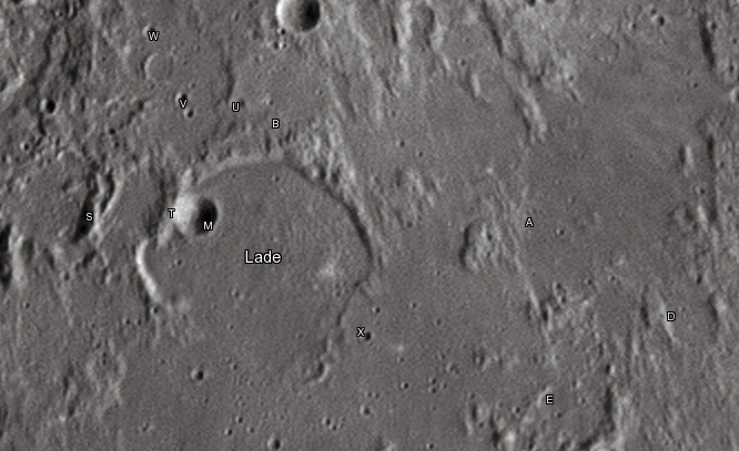 Lade lunar crater as seen from Earth with satellite craters labeled